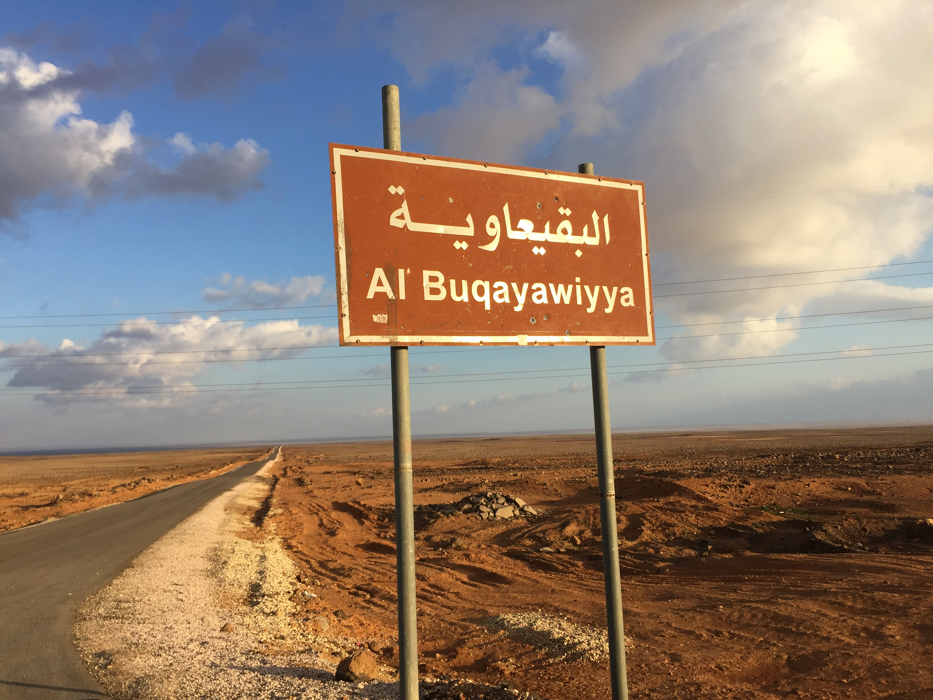 Al Buqayawiyya, Azraq, Jordan